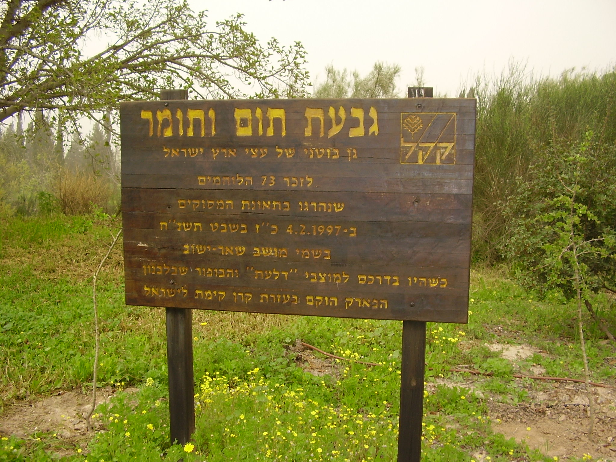 tom & tomer hill near negba